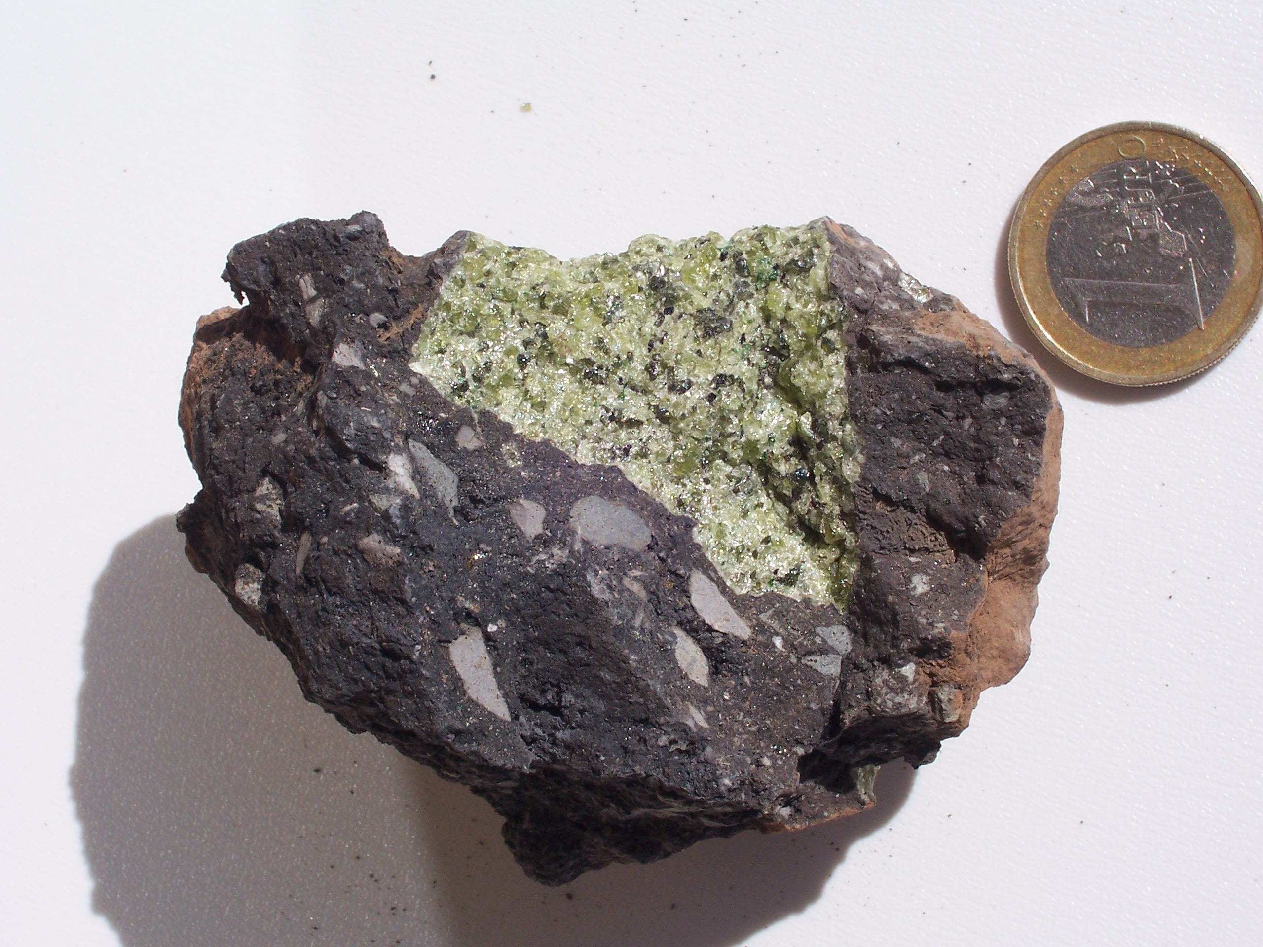 Picture of a piece of peridotitic (green) mantle xenolith within a (dark) volcanic bomb from the Vulkan-Eifel, Germany. Coin of one euro for scale.